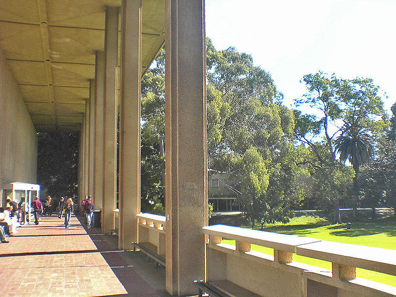 Photograph off the first floor balcony of the Reid Library at UWA.